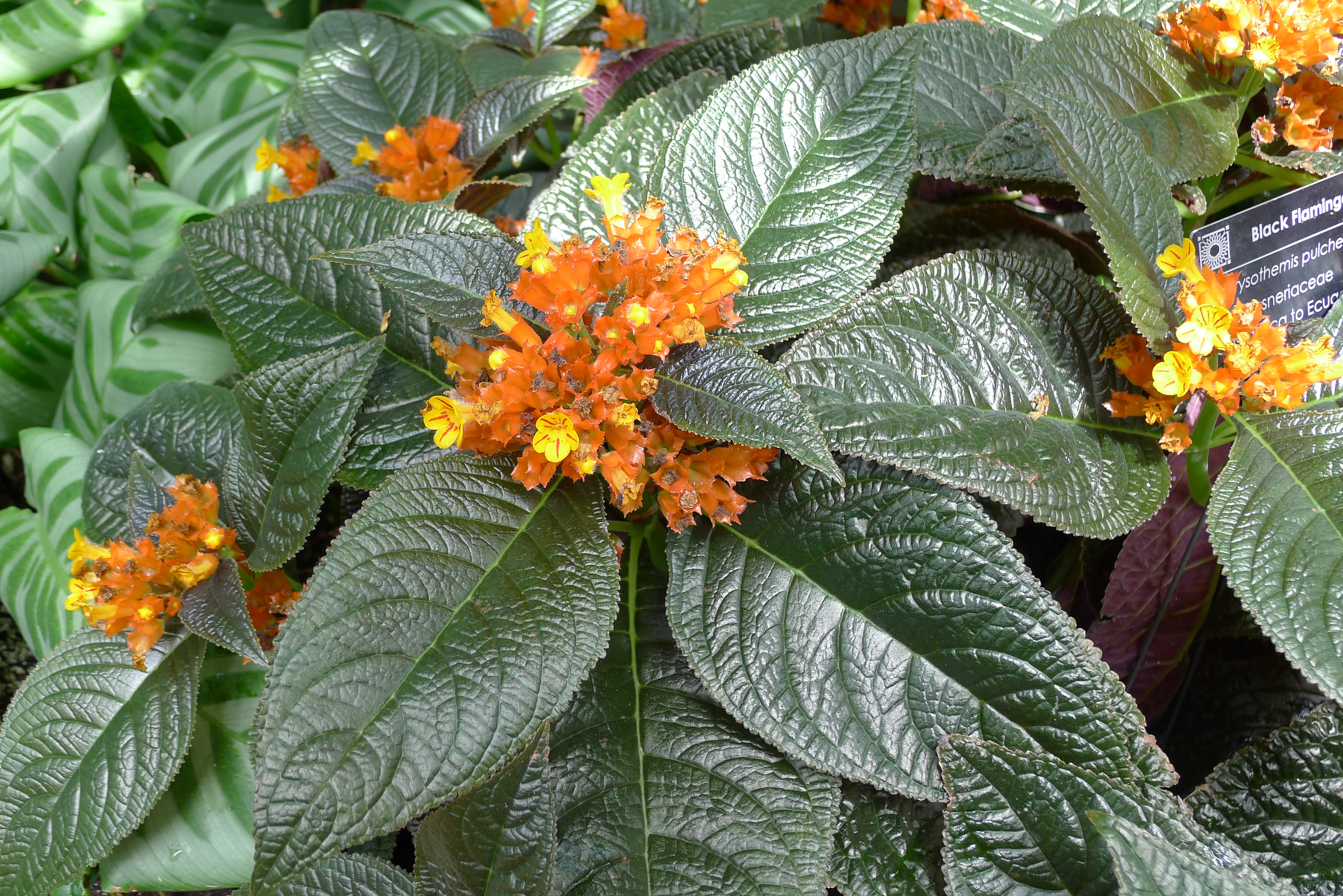 Chrysothemis pulchella (Black Flamingo) in the Boltz Conservatory of Olbrich Botanical Gardens in Madison, Wisconsin